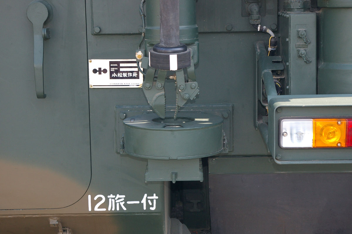 Taken by los688,8-Apr-2007,JGSDF Camp-Utsunomiya.JGSDF Chemical Reconnaissance Vehicle,manipulator.12th Bri.PD-self. ja:2007年4月8日、投稿者撮影。陸上自衛隊宇都宮駐屯地創立57周年記念行事。化学防護車。車体後部マニピュレーター。